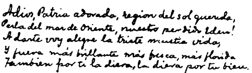 First stanza of "Mi Ultimo Adiós", by Jose Rizal, written before his execution on December 30, 1896. The poem was untitled, but this is the most common name it is known by.